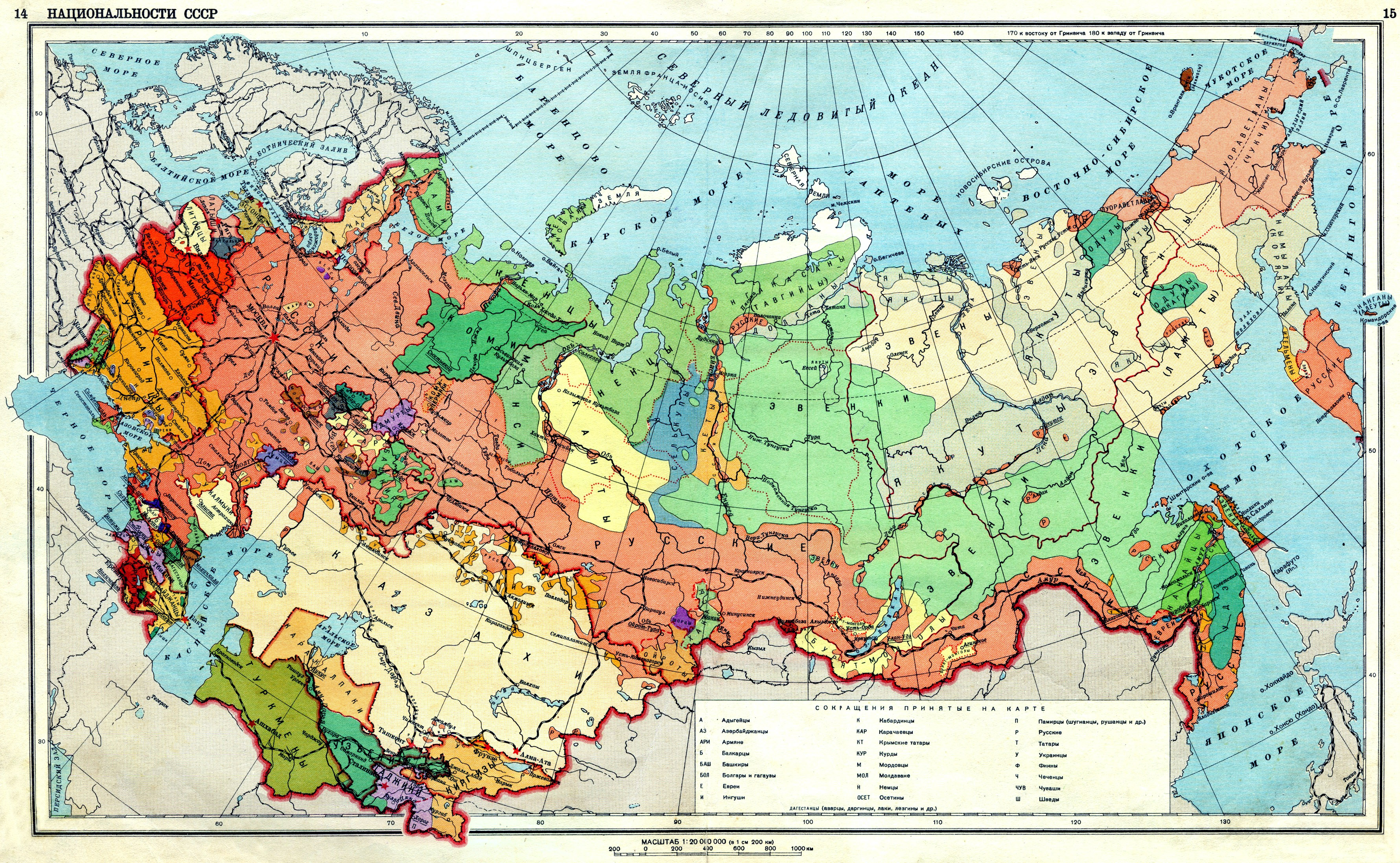 Map of the ethnic group in the USSR in 1941